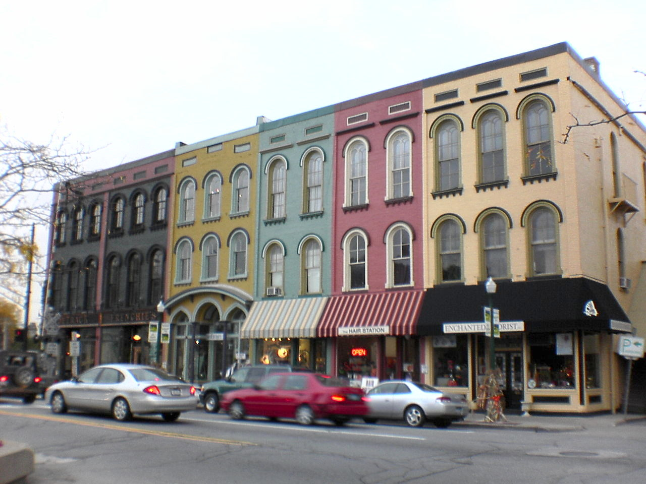 Store fronts and the railroad crossing on East Cross Street, Ypsilanti, MI